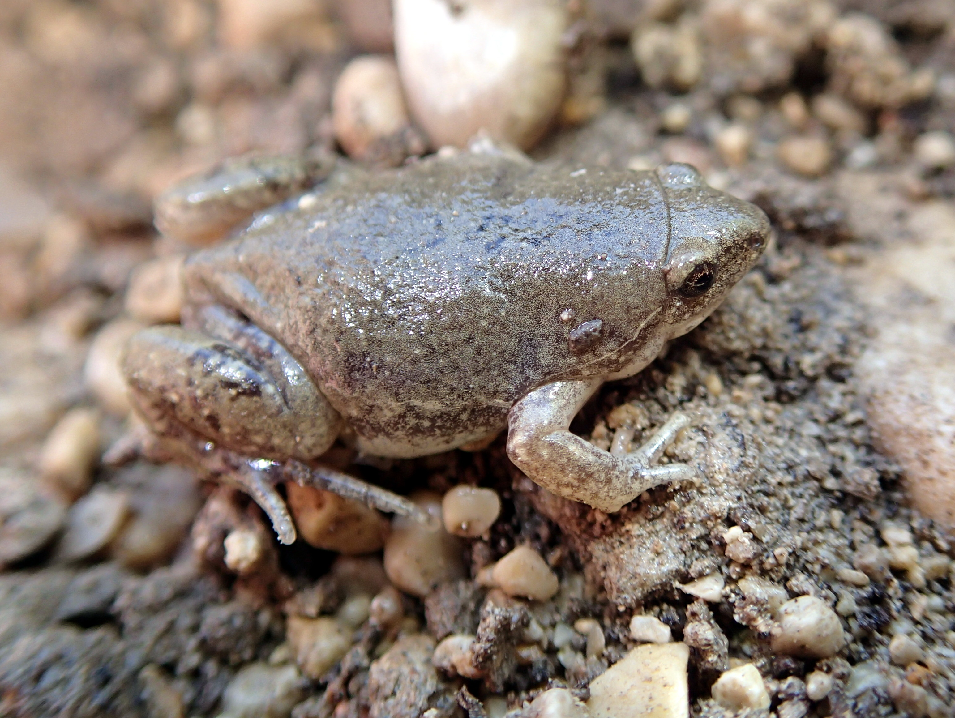 Gastrophryne olivacea